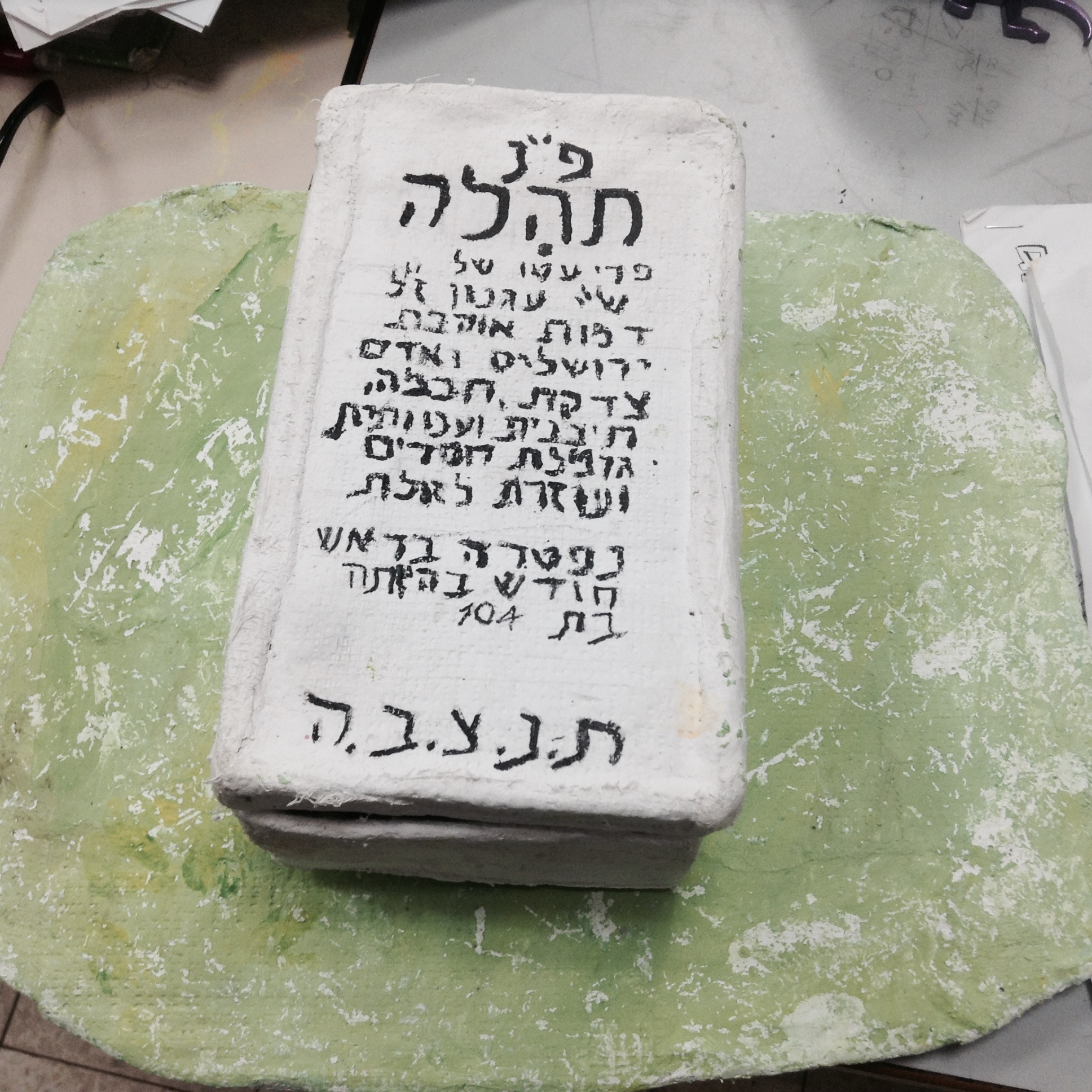 Grave of Shmuel Yosef Agnon.